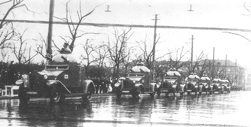 Vickers-Crossley armored cars during the military parades of the Shanghai Special Naval Landing Force.